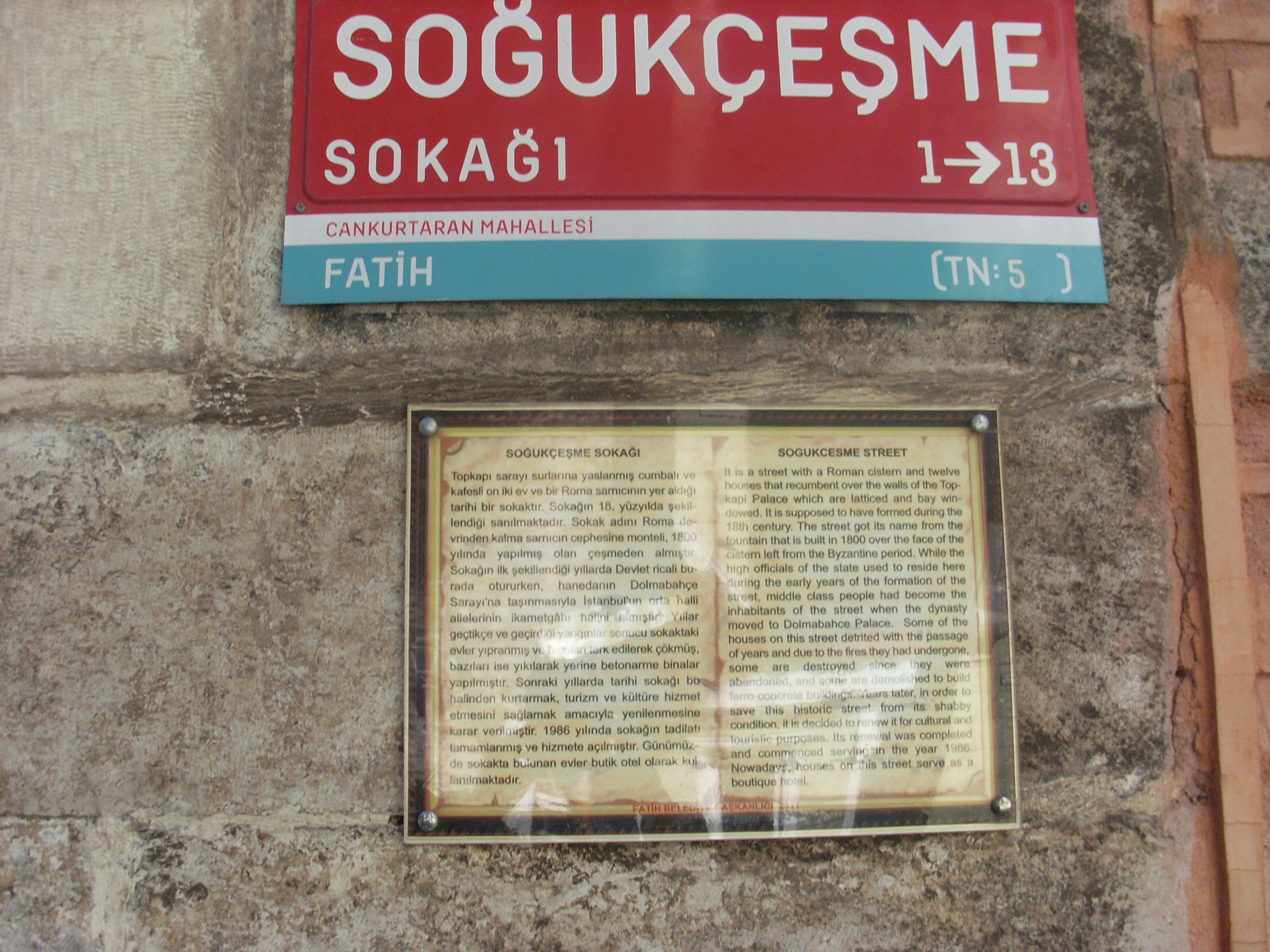 İstanbul - Soğukçeşme Sokağı r1 - Mar 2013